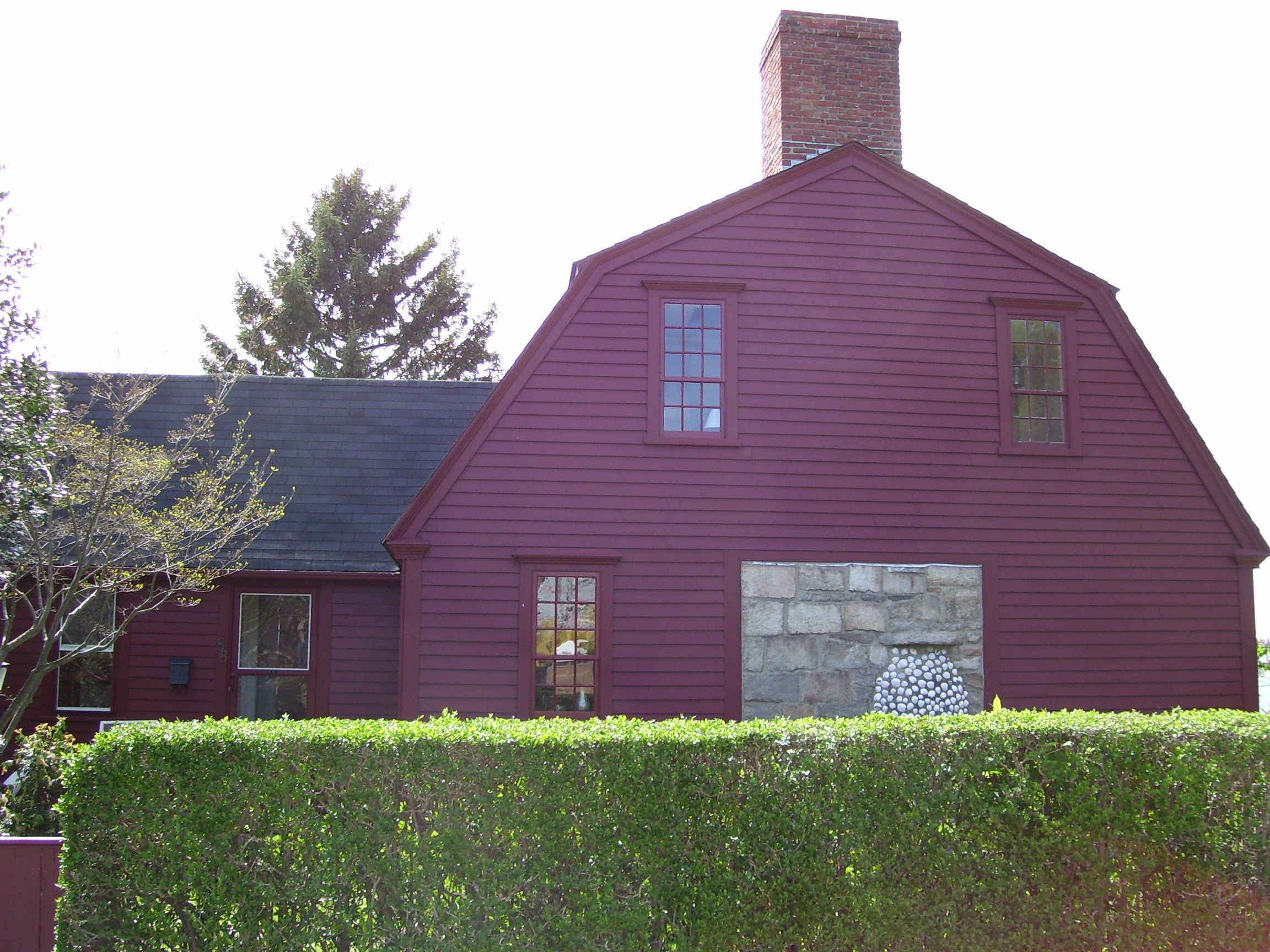 My pic of Tripp HOuse in Easton's Point, Newport RI in 2008